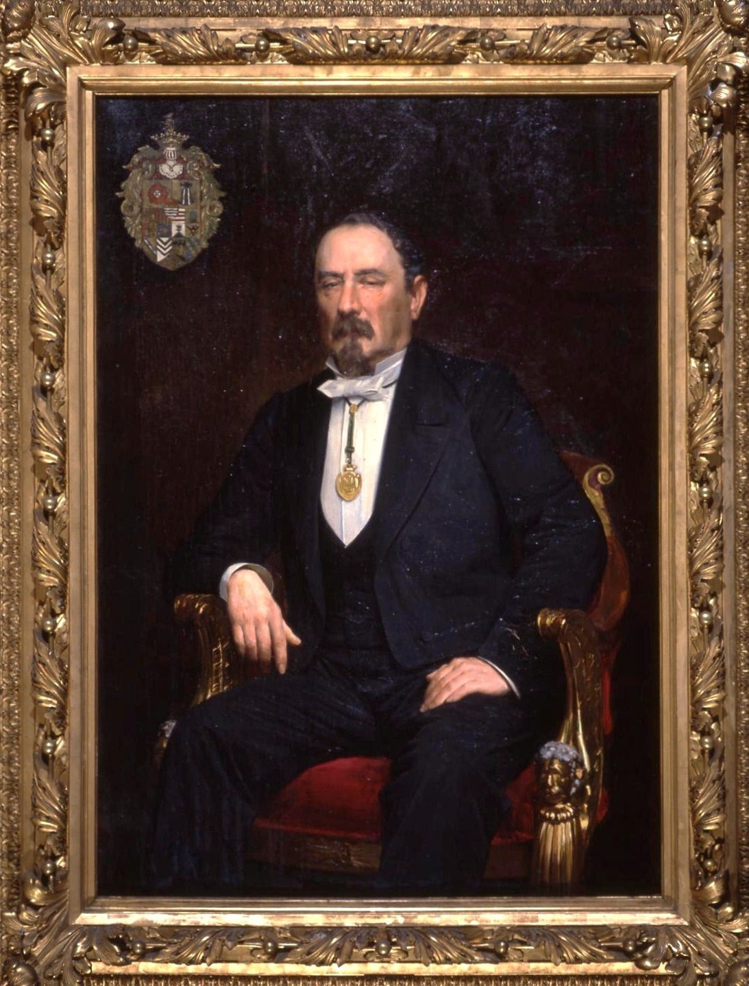 Portrait of the Marquis of Alfarrás